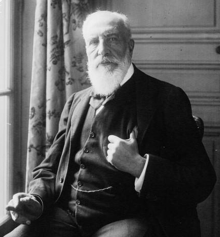 French industrialist Émile Deutsch de la Meurthe (1847-1924).